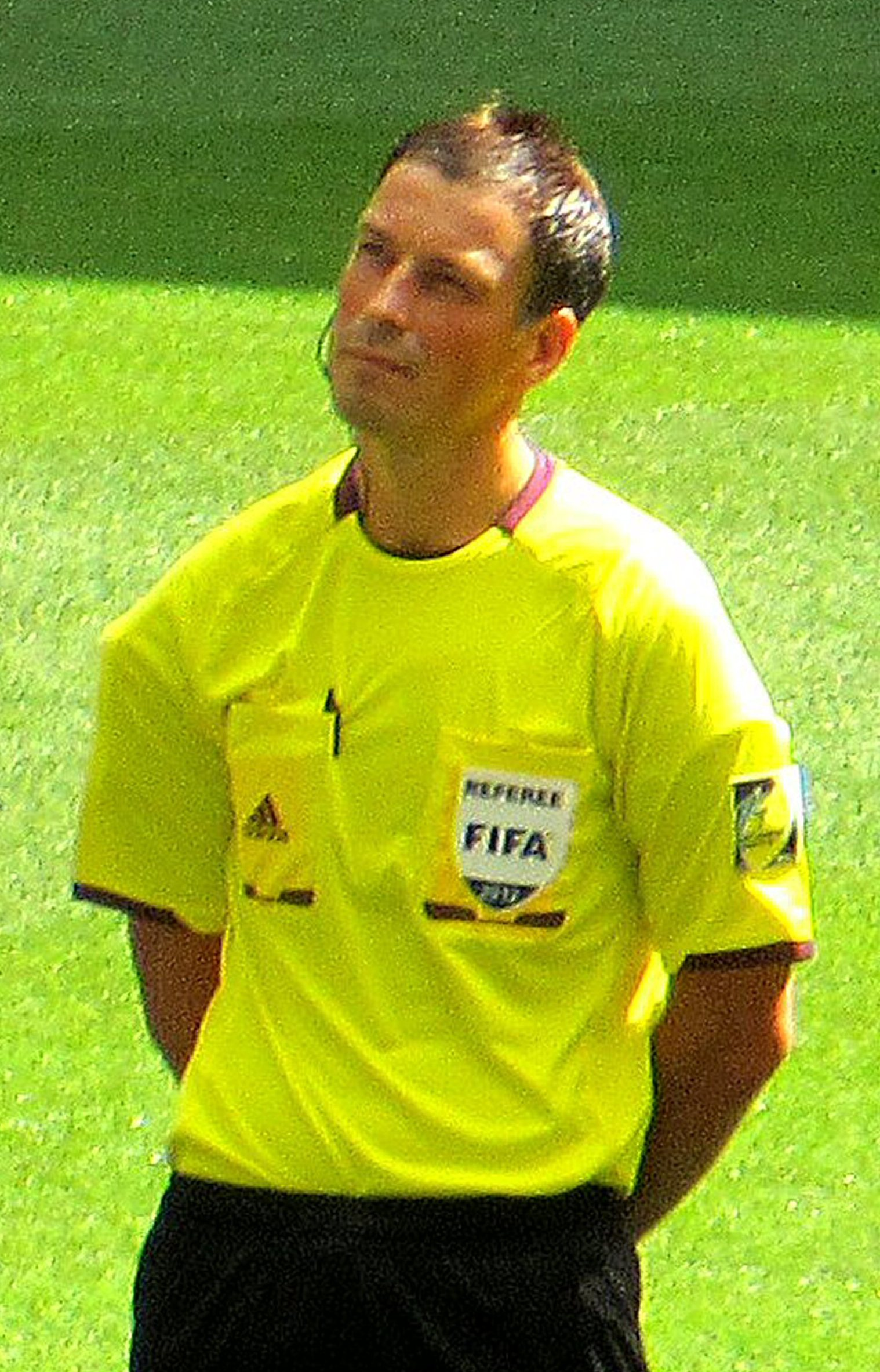 Mark Clattenburg, Wembley , London Olympics 2012